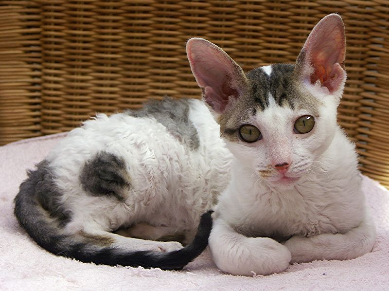 Junge Cornish Rex (Autor: Stefan Groenveld /